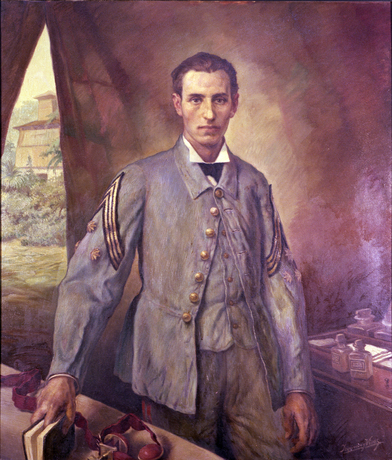 The Captain Doctor Santiago Ramón y Cajal Portrait, in 1874.